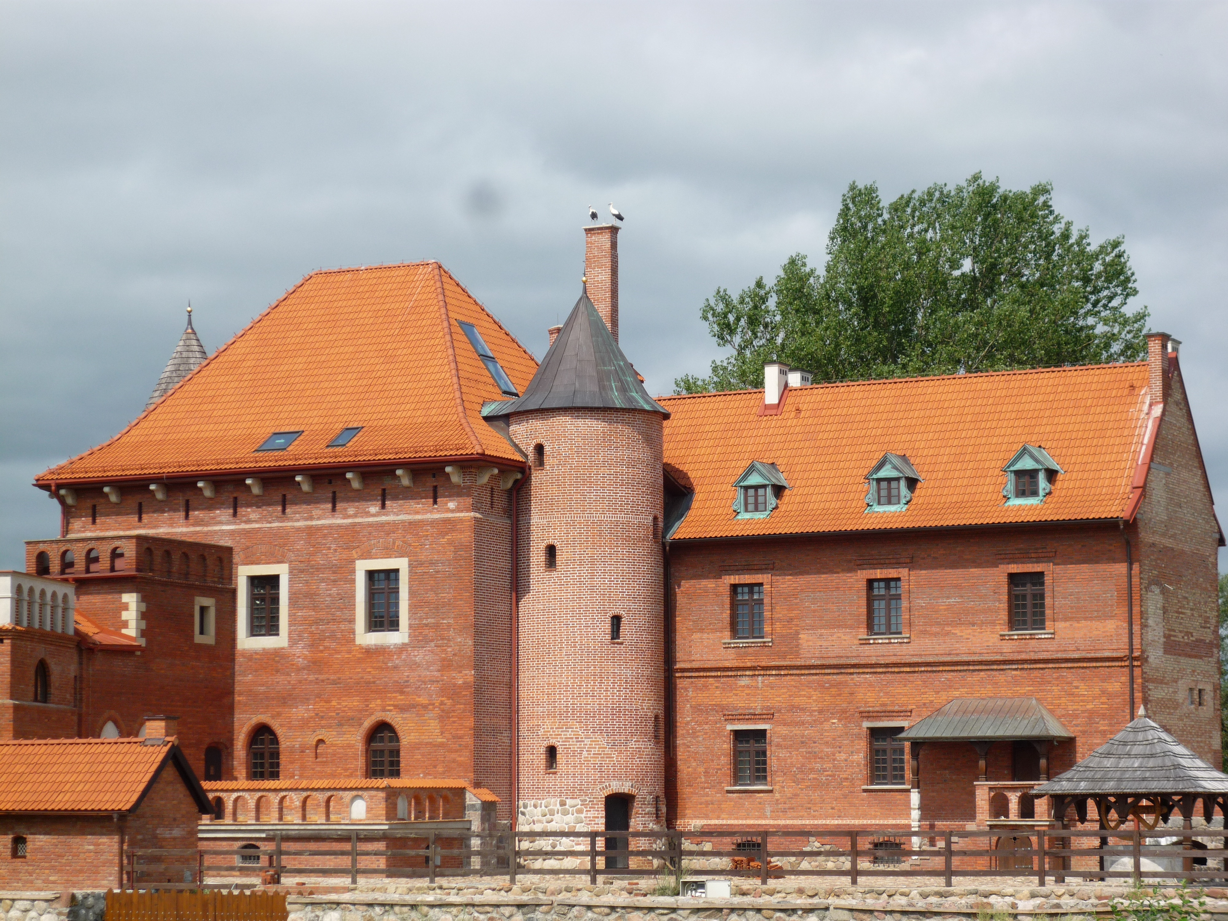 Castle in Tykocin, built in 1433 and expanded in 1550-1582 by king Sigismund Augustus. Destroyed 1771/1914, was partially rebuilt in 2005.